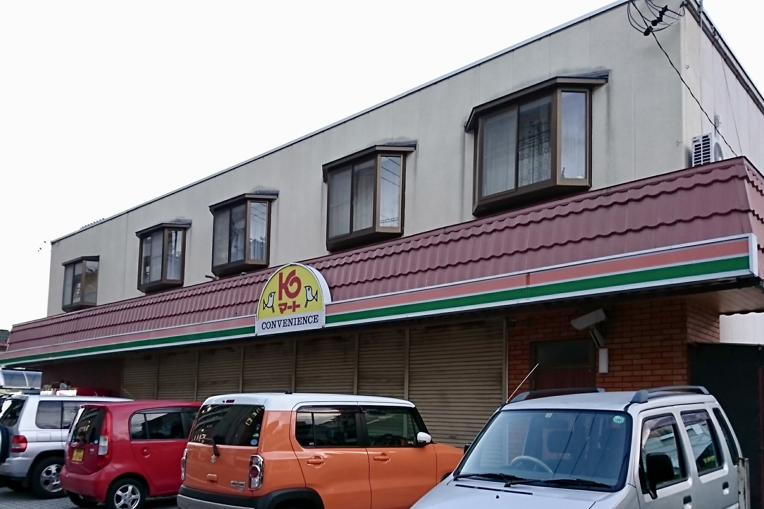 K-mart Kamiyamada shop(closed)